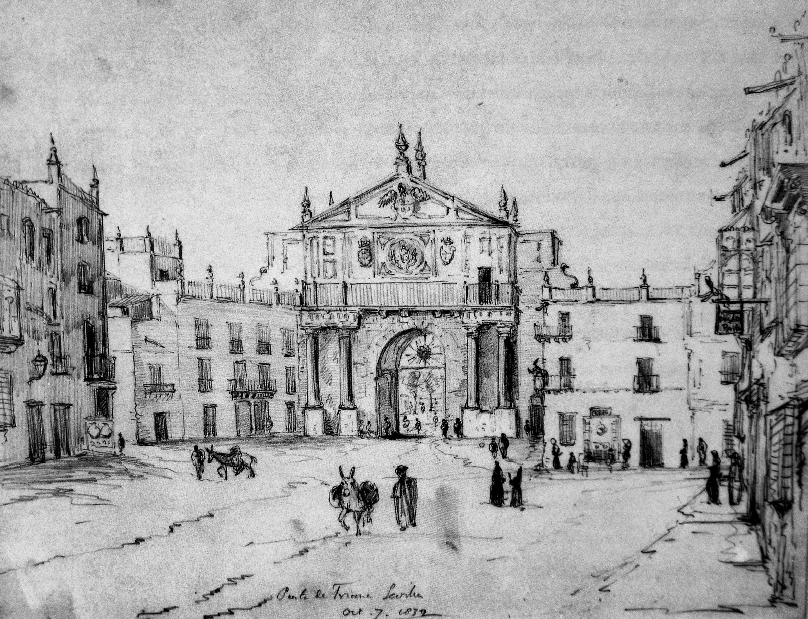 the British Hispanist Richard Ford made this drawing of the Puerta de Triana.